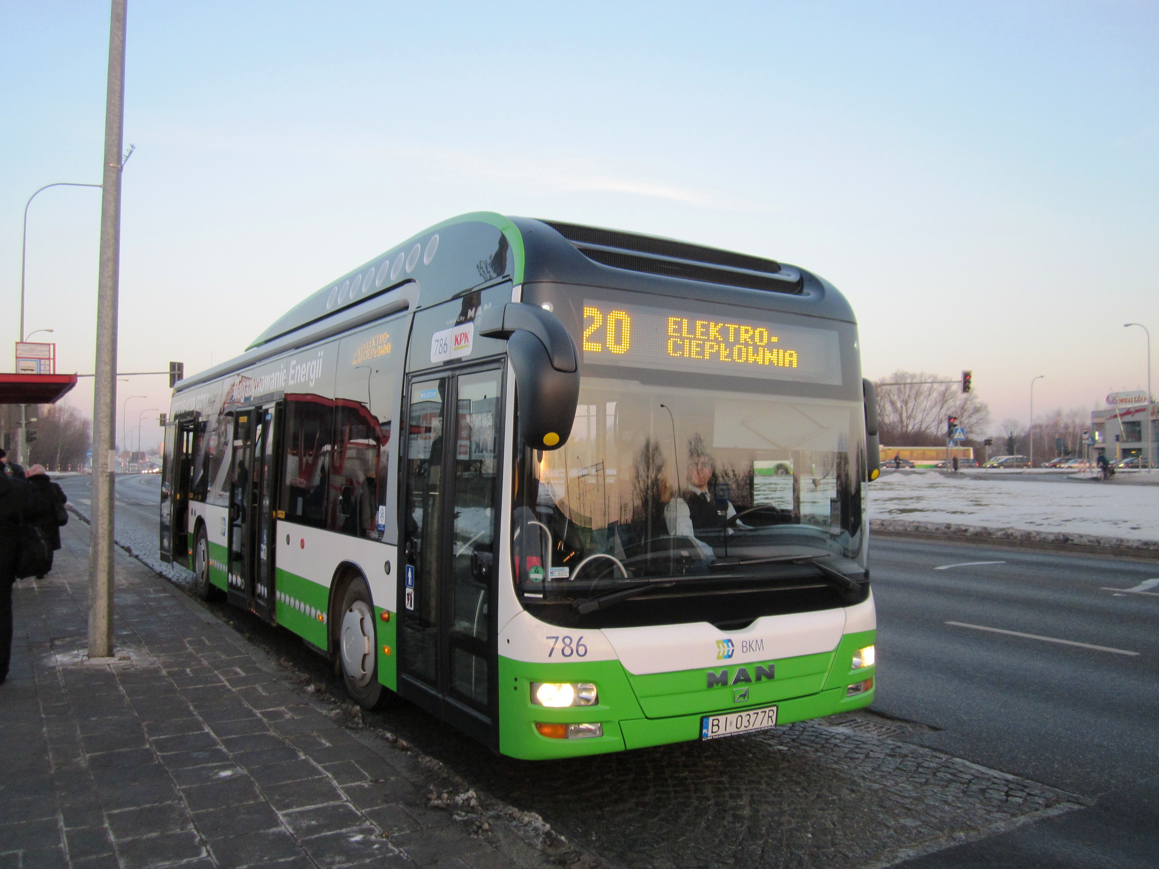 Hybrid-powered bus in Białystok (MAN Lion’s City Hybrid)